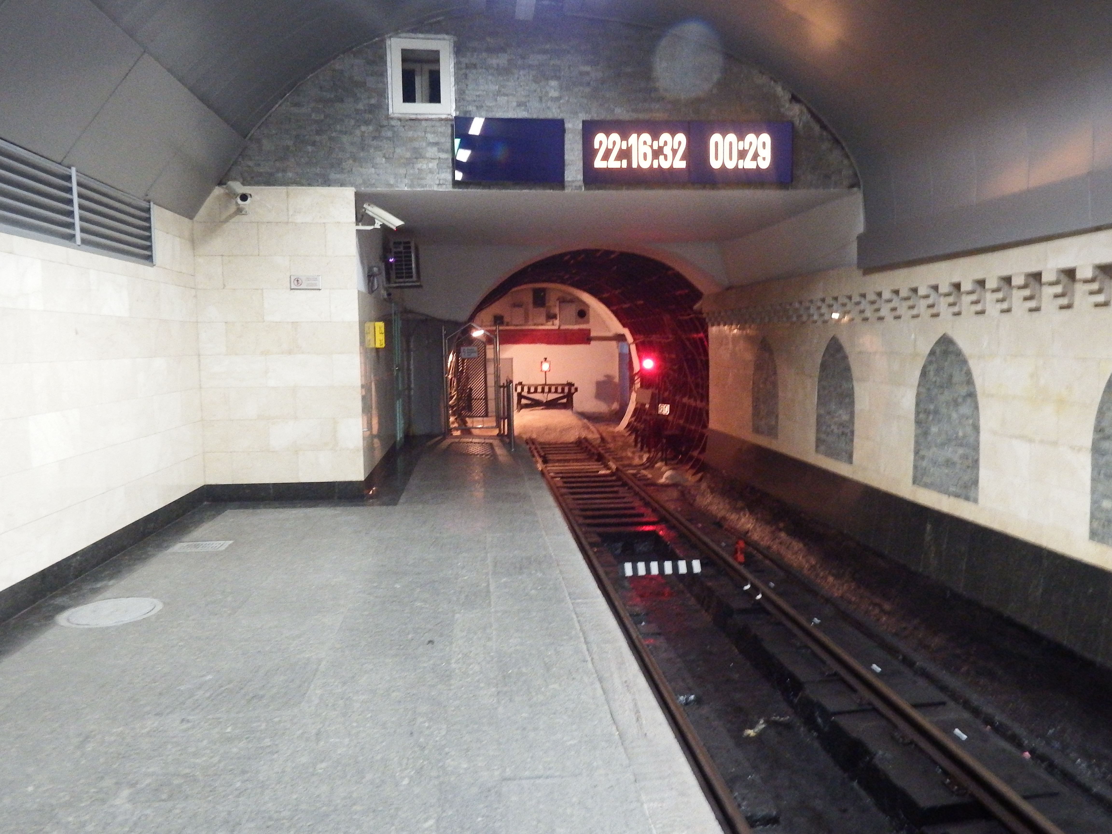 Icheri Seher metro station ehd of railways